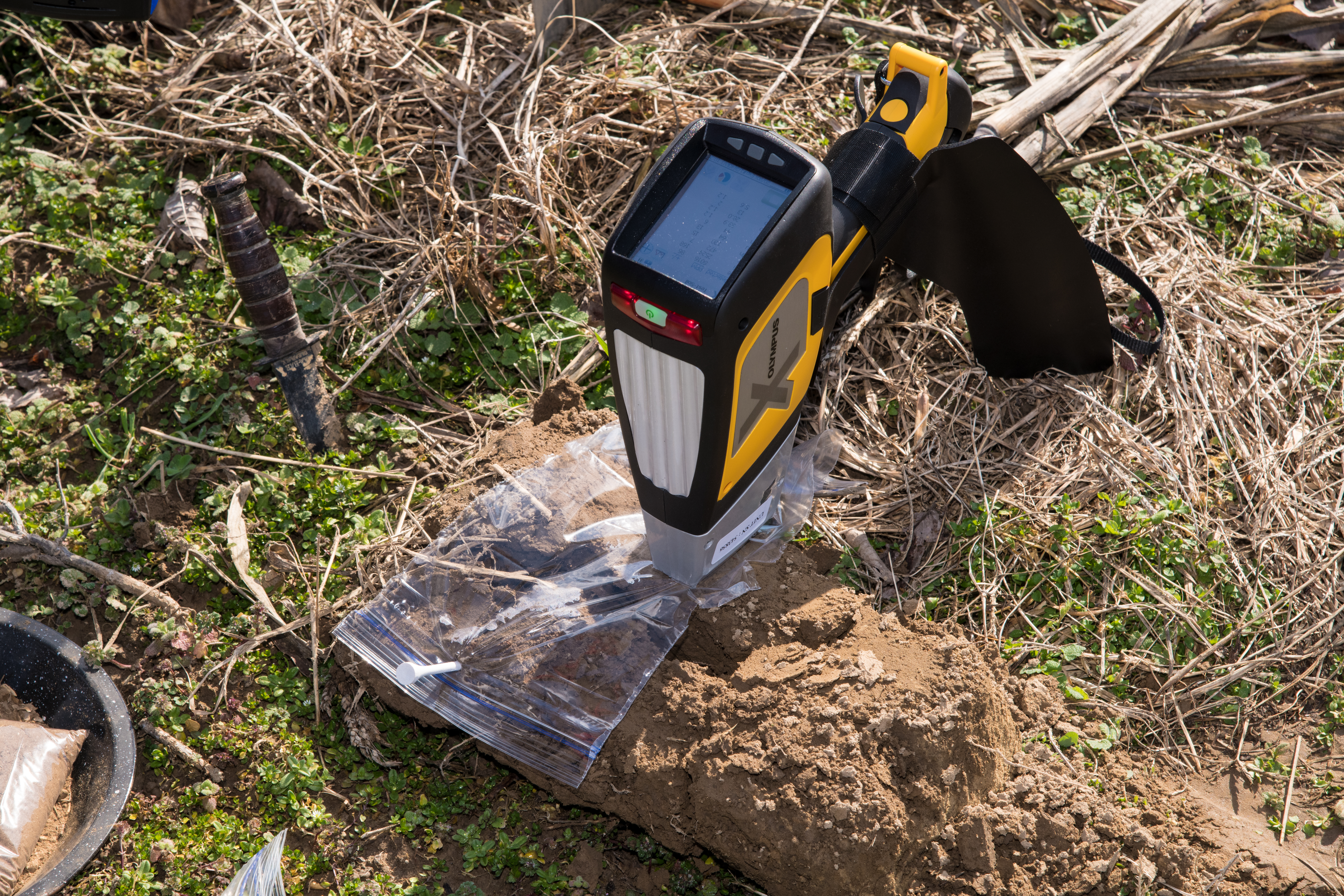 Chesapeake Bay Foundation Clagett Farm welcomes U.S. Department of Agriculture (USDA) Agricultural Outlook Forum (AOF) Farm Conservation Tour participants and gives them an overview of Clagett Farm and the conservation practices that have been implemented in partnership with Natural Resource Conservation Service (NRCS) in Upper Marlboro, Maryland, on Feb. 21, 2018. The foundation and NRCS staff will discuss the implementation process of conservation plans that address soil health, drainage solutions and farm road designs. U.S. Department of Agriculture (USDA) Natural Resource Conservation Service (NRCS) District of Columbia, Delaware, Maryland State Soil Scientist Phillip King demonstrates the deployment of the Olympus Delta Professional XRF hand-held device that determines the amount of metal contaminants within the soil. The contaminants of concern are lead, mercury, cadmium and arsenic. Once identified, a land owner can choose not to use the land or address the problem with a remedial activity. This technology provides an efficient and timely analysis for the customer so that they can make their land use decisions. Previously, aerial surveys and excavations were needed to get soil samples that were sent to laboratories for analysis. The increased use of surburban/urban interfaces for agricultural production is one of the reasons this device was brought into service is to detect metal content in soil that people may have put on the land. USDA Departmental Administration Radiation Safety Division Specialist Katina Jones, red shirt, takes advantage of the nearby XRF device demonstration to get some field measurements of natural radiation in the area and then near the device in various modes. No problems were detected. USDA Photo by Lance Cheung.